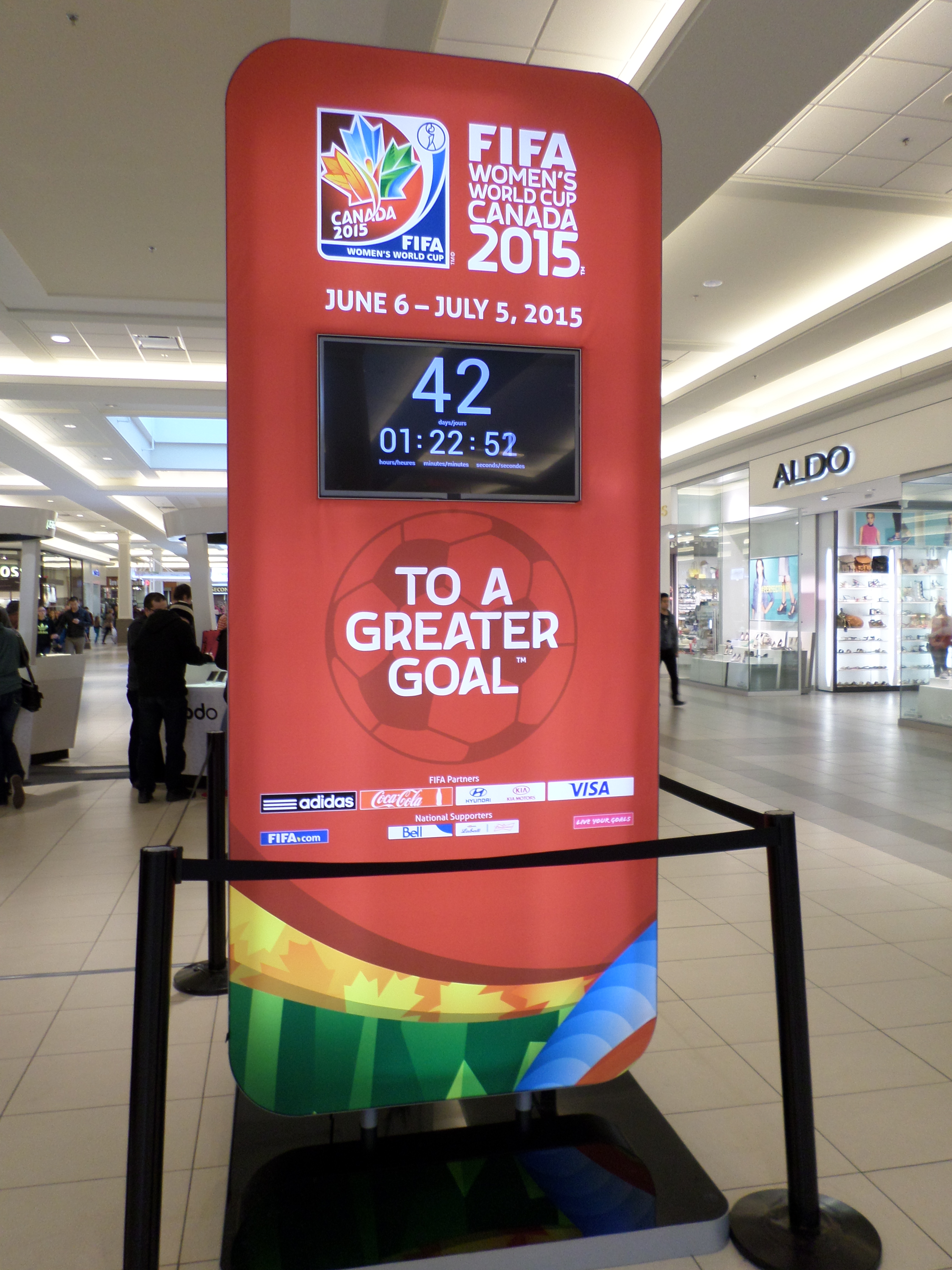 Women World cup 2015 countdown at Champlain Mall, Dieppe, NB